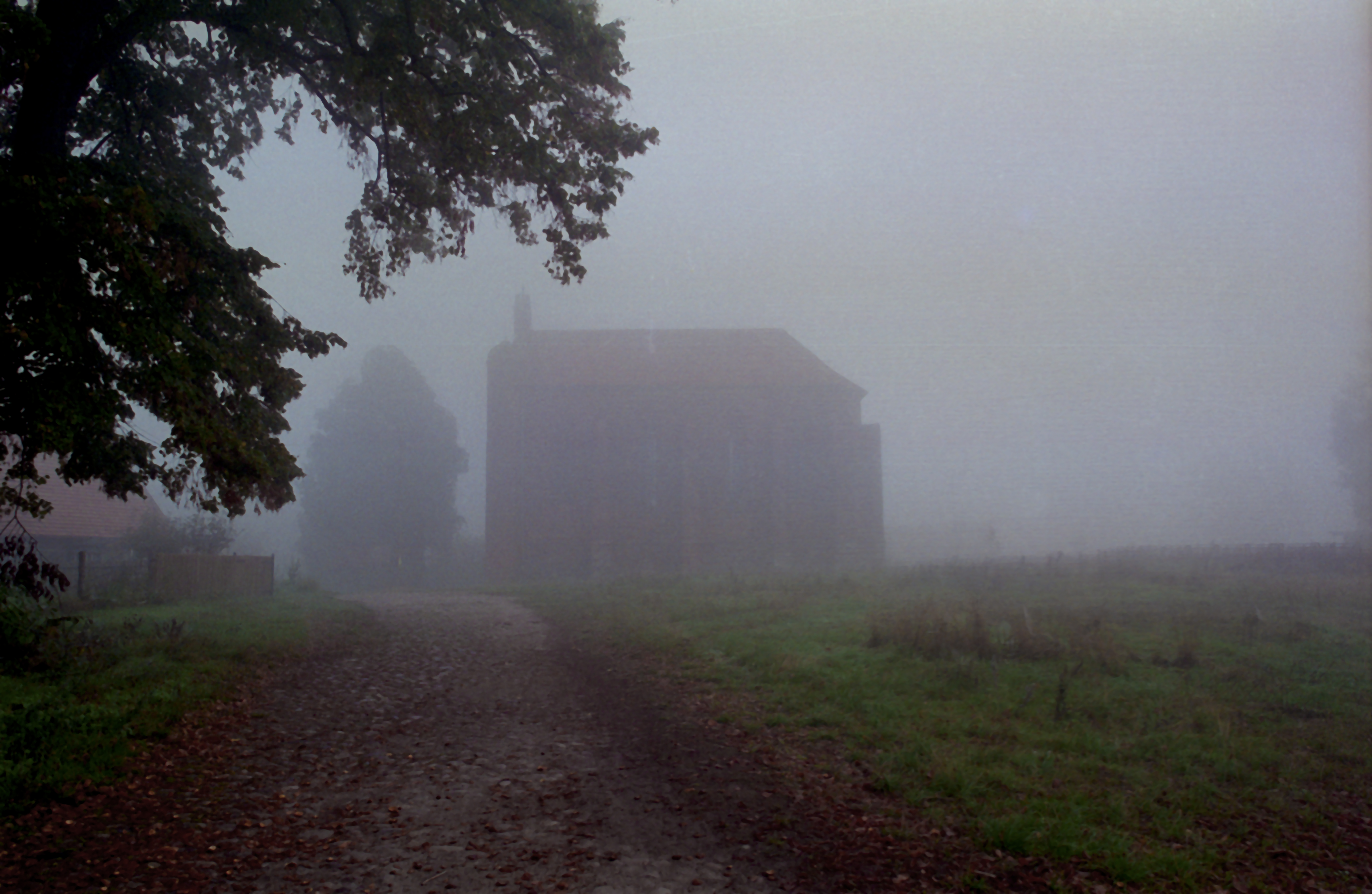 Poland, Chwarszczany, Knights Templar Castle - chapel